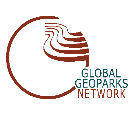 Logo of the Global Geoparks Network of the UNESCO